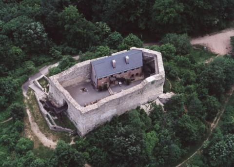 Márévár, castle, Hungary, aerialphotography